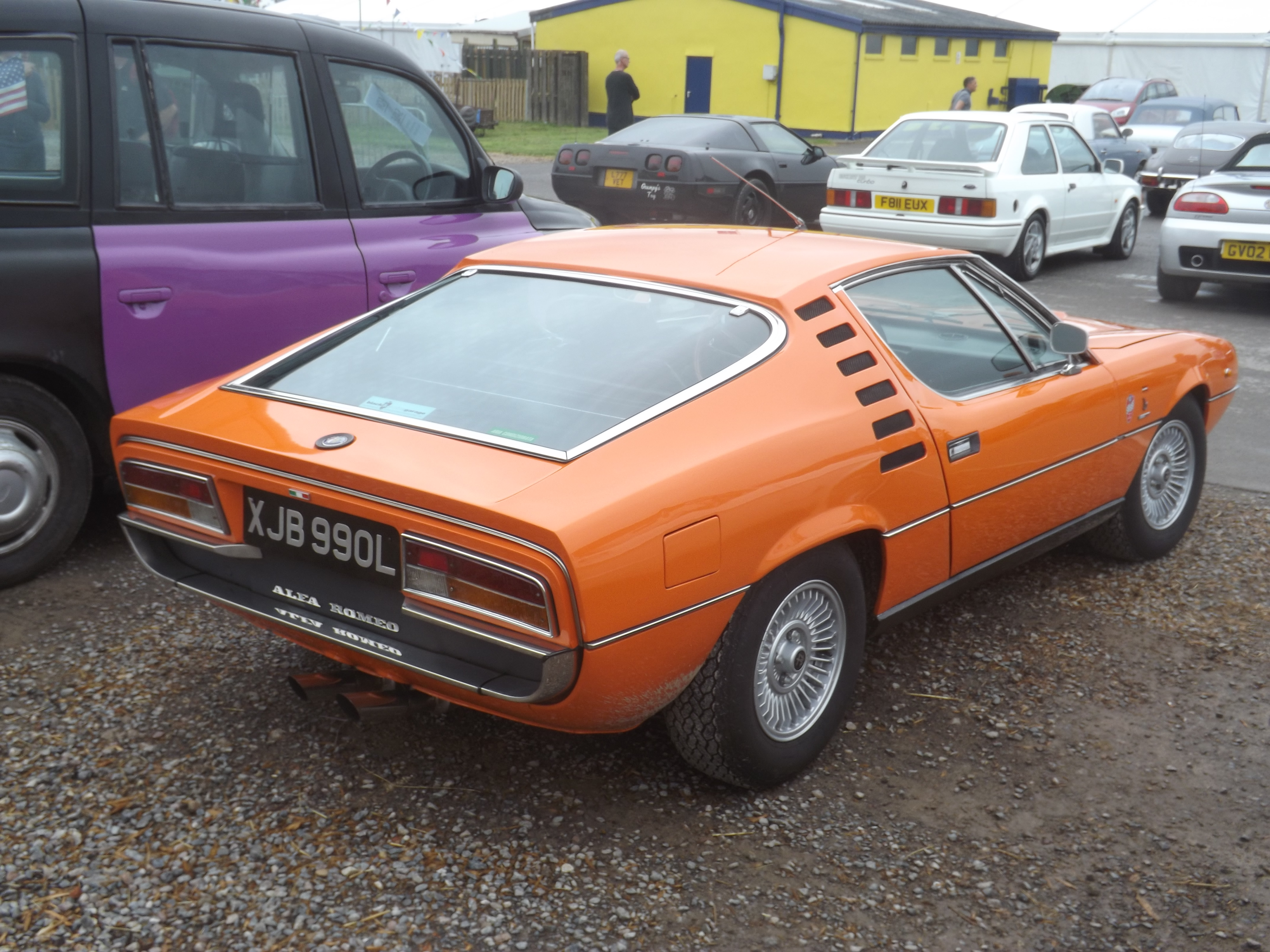 Bristol Classic Car Show, Royal Bath & West Showground, 13 June 2015